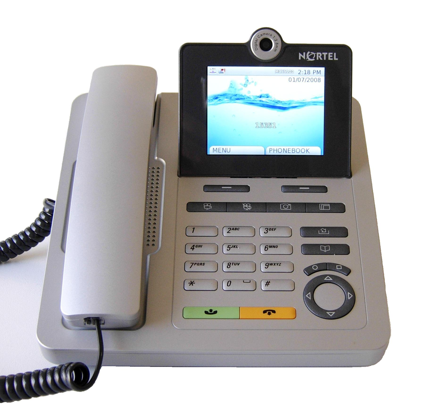 Nortel IP Video Phone 1535